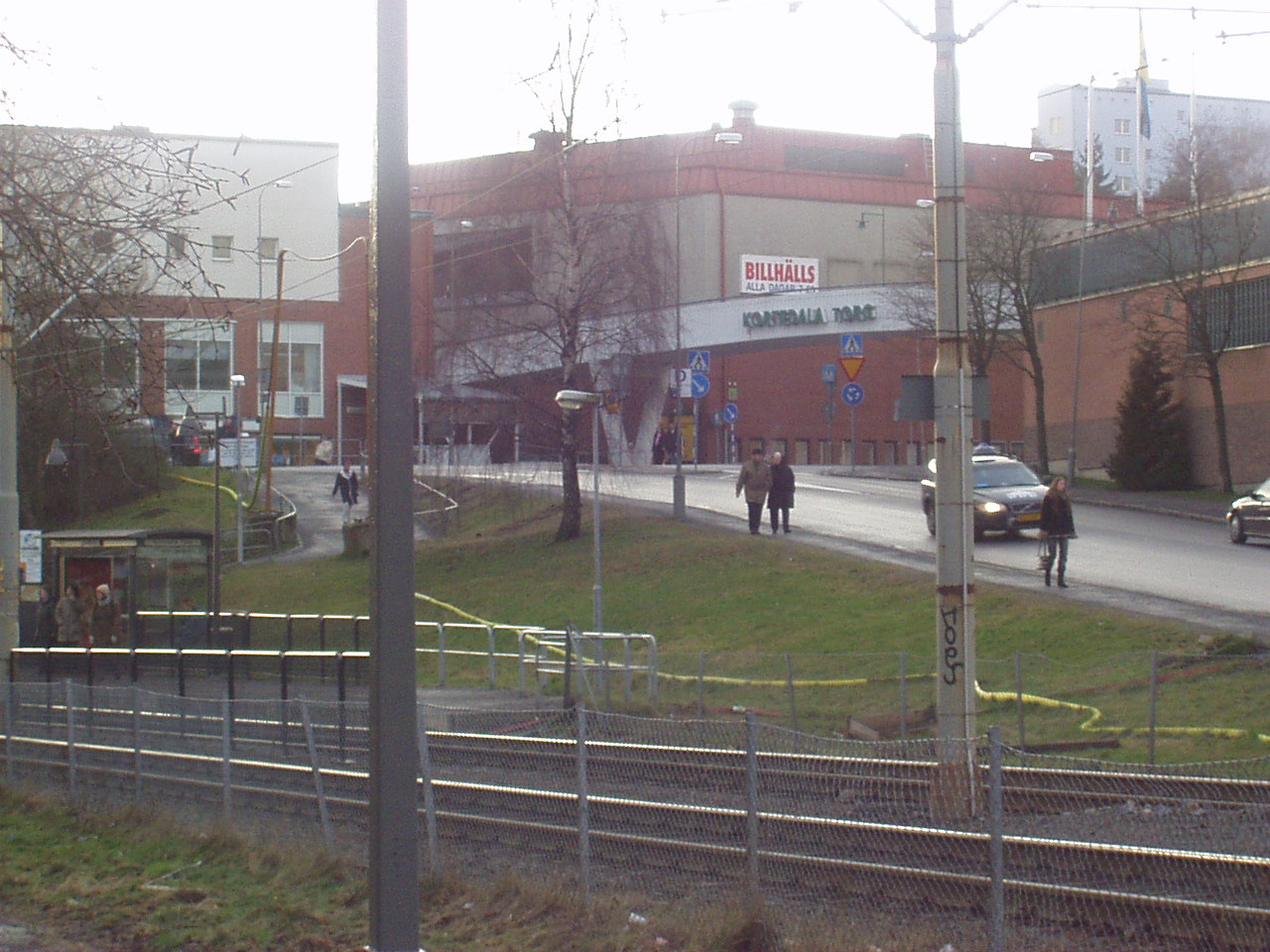 Author: Osquar